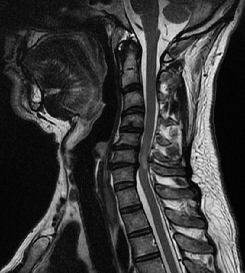 Rectified cervical lordosis with greater inversion of the curve in C4-C6. Spondylodyscarthropathy with a slight increase in the C5-C6 protrusion and the appearance of compressive myelopathy at the C6-C7 level.